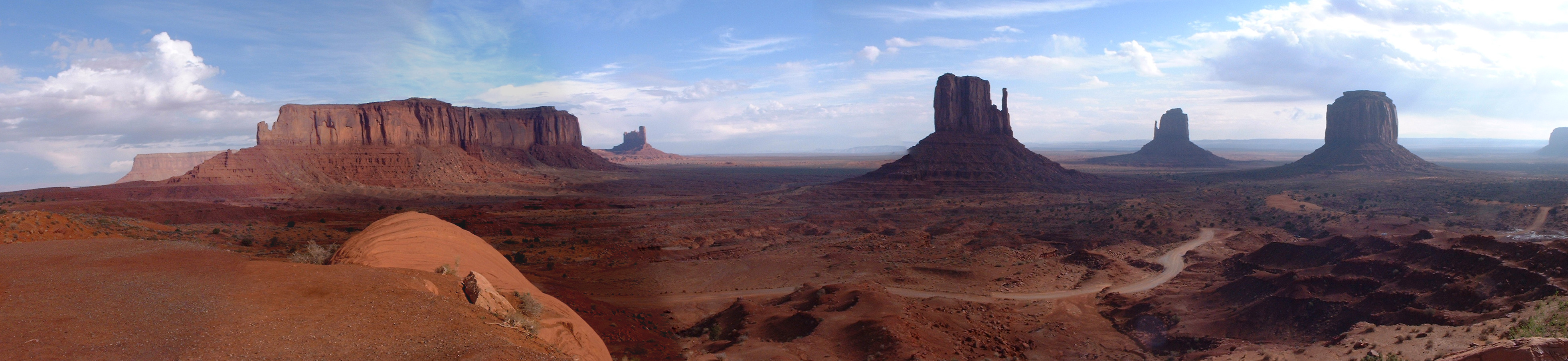 Panorama of Monument Valley, Arizona-Utah (Utah at left, view about east-northeast, Arizona at center, and right).